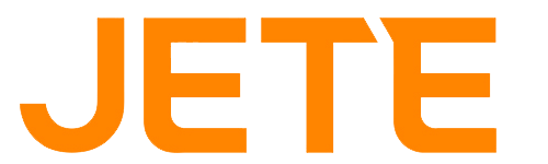 JETE official